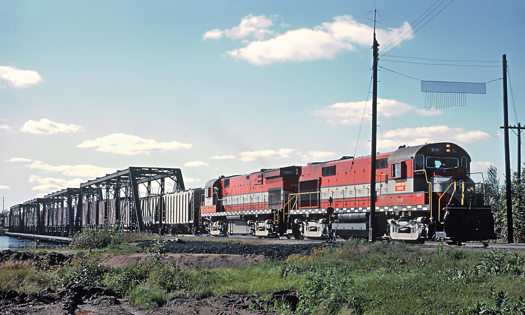 Here are some of Roger Puta's photos of the power of the Kewaunee, Green Bay and Western Railroad and the Green Bay and Western Railroad. This page gives the history and relationship between these two roads: GBW 310 and 311 (RS-27 and C-424) unknown location in October 1964. This file comes from the Roger Puta collection, which passed to Mel Finzer. They were scanned and posted by Marty Bernard, are in the Public Domain. Attribution to "Roger Puta" is not required for a PD image, but should be done as a matter of courtesy to a major Commons contributor. Mel Finzer, the heirs of this work's copyright holder (usually the creator) have released it into the public domain. This applies worldwide. In some countries this may not be legally possible; if so: The heirs of the creator grant anyone the right to use this work for any purpose, without any conditions, unless such conditions are required by law. See This work is free and may be used by anyone for any purpose. If you wish to use this content, you do not need to request permission as long as you follow any licensing requirements mentioned on this page.